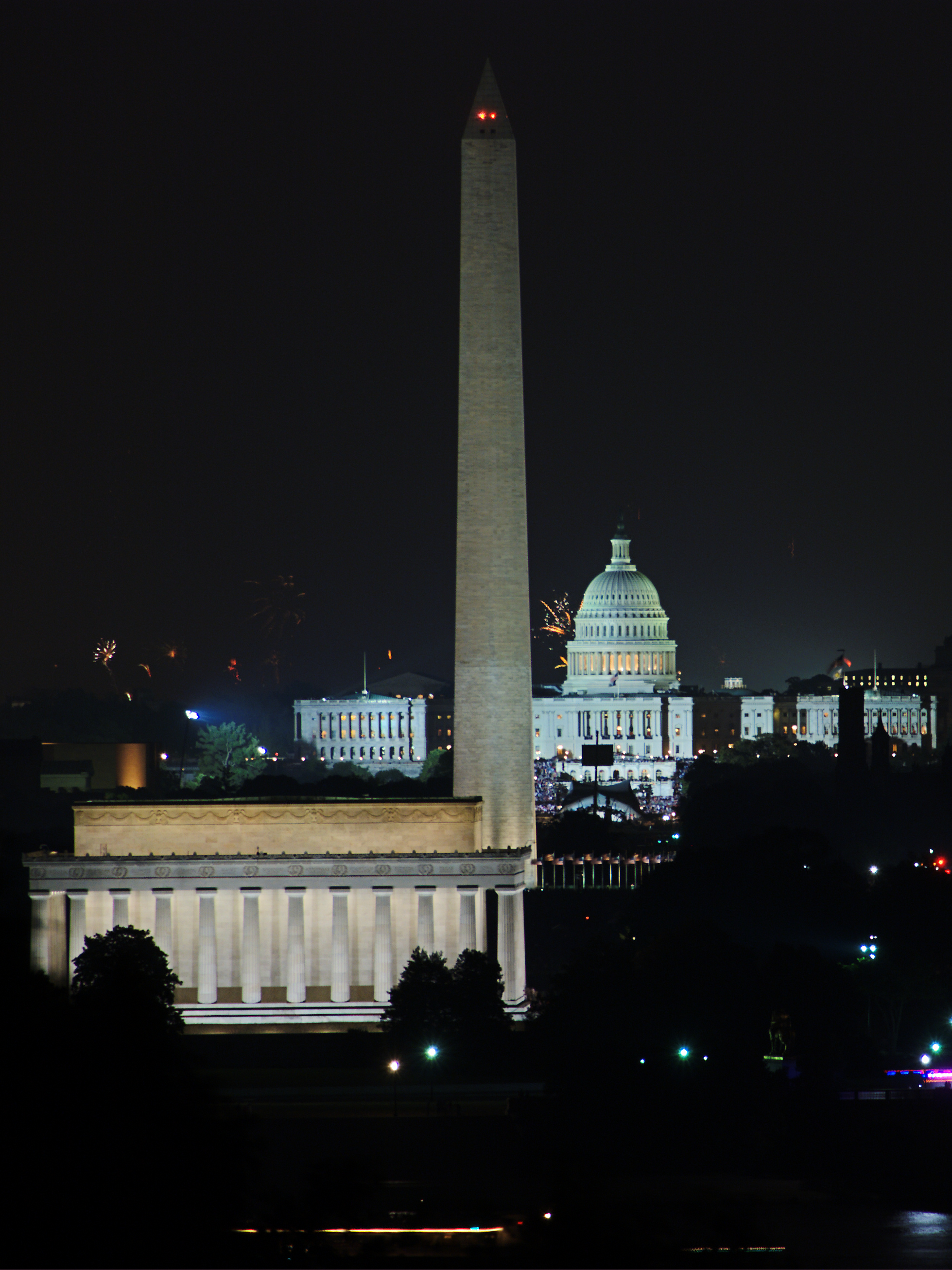 The Lincoln Memorial, Washington Monument, and US Capitol at night